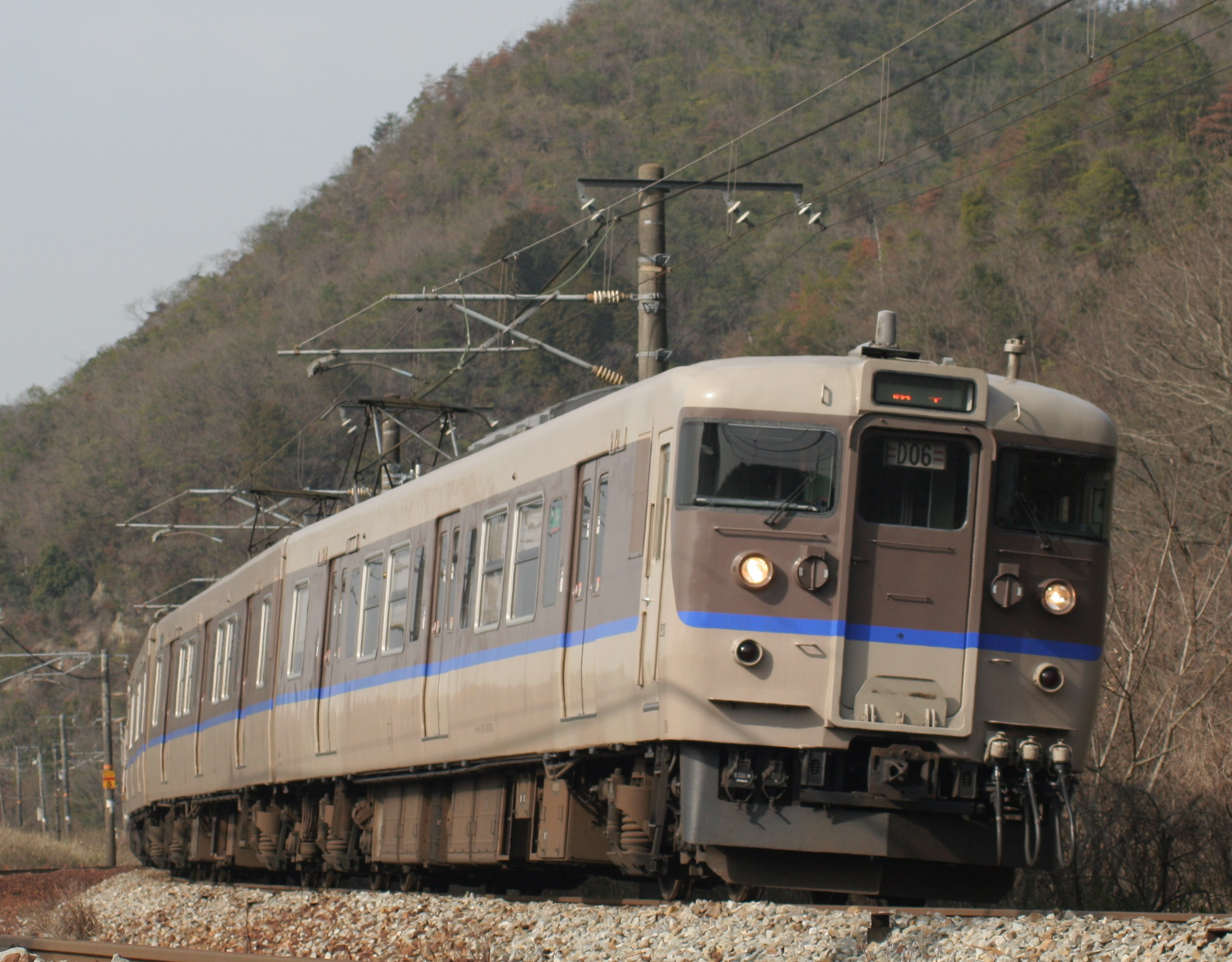 JR West 115 series set D6 on the Sanyo Honsen between Mitsuishi and Kamigori, 18 March 2009